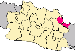 Cirebon county in West Java province, Indonesia